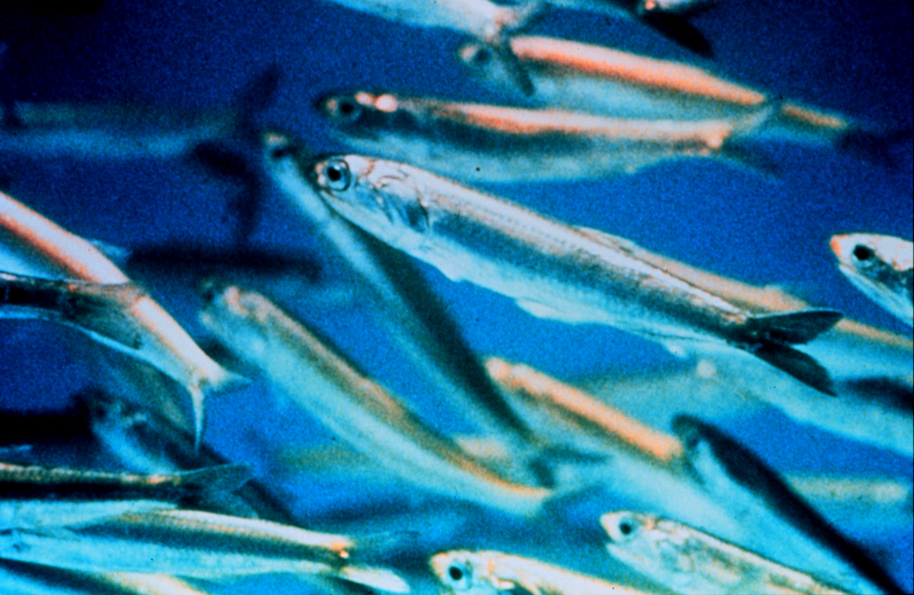 Northern anchovies (i.e. Californian Anchovies) are important prey for marine mammals and game fish. Location: Pacific Ocean.